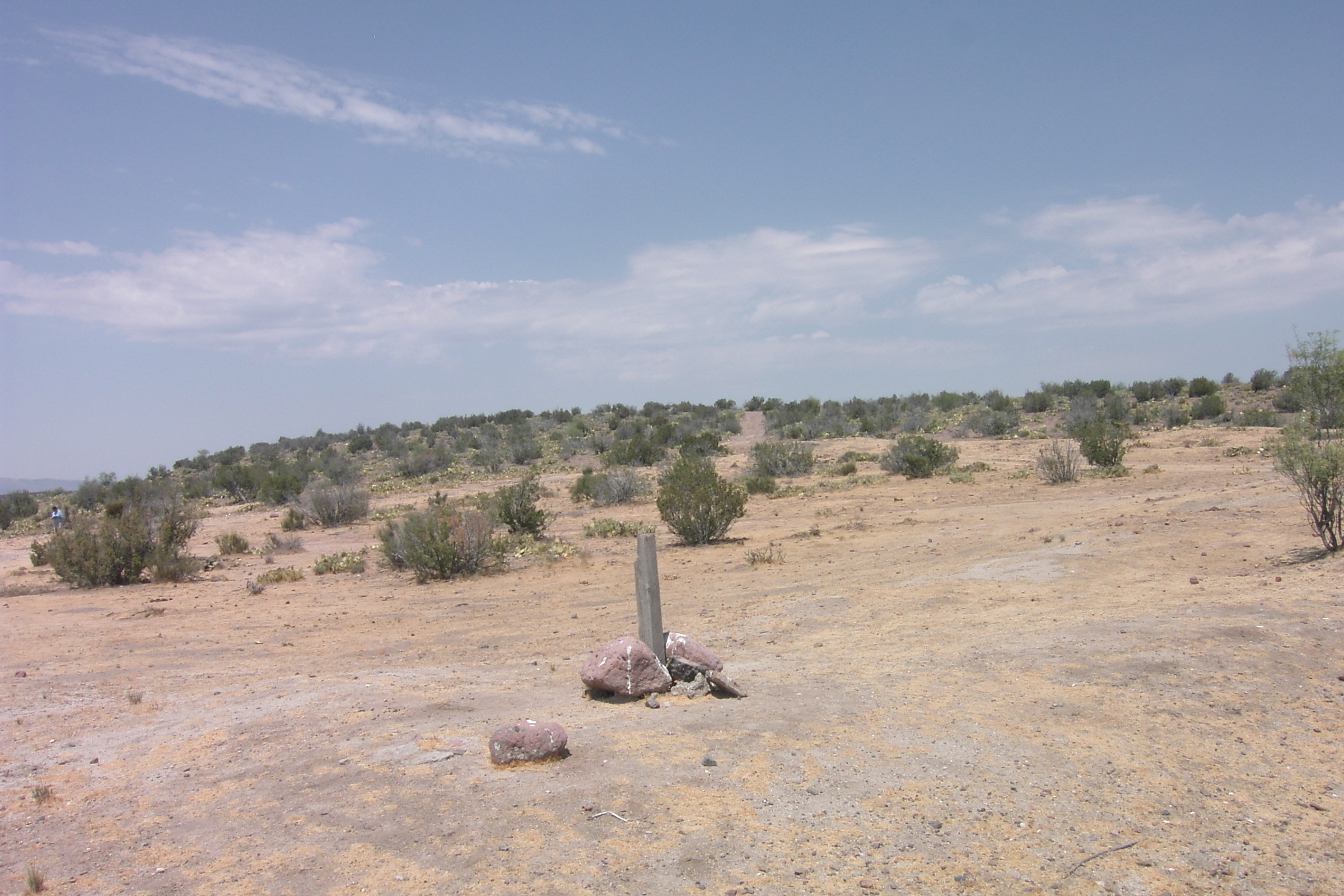 Photo of the site of Santa Catalina Virgen y Martir taken on 16 July 2005 )